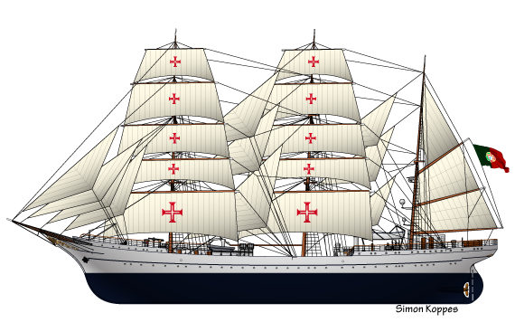 Drawing of the Portuguese sailing ship NRP Sagres